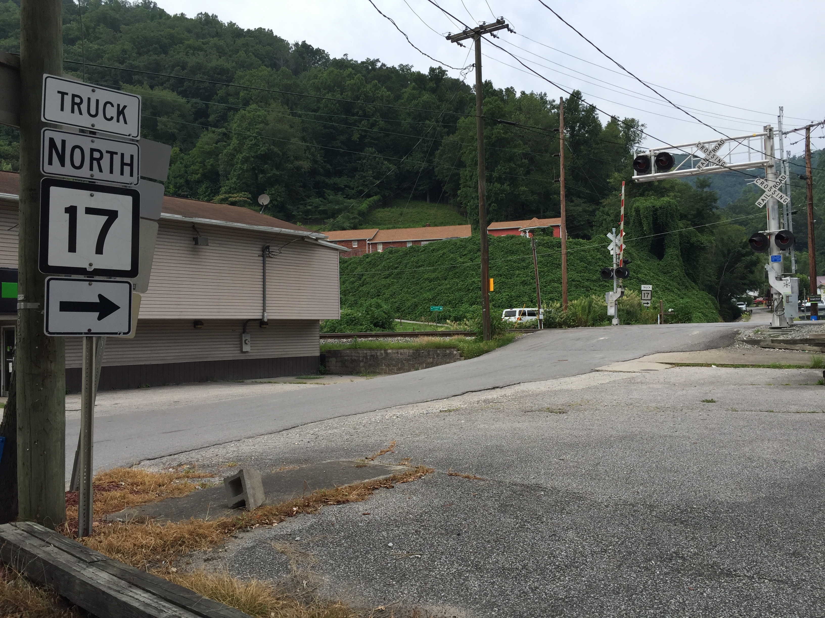 View north along West Virginia State Route 17 Truck (Stollings Road) at West Virginia State Route 10 (Stollings Avenue) in Stollings, Logan County, West Virginia